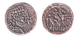 Replica of an ancient Iberian coin of 'Uarakoś'. Obv.: bearded head, rev.: horseman galloping right, holding spear, Iberian legend (equivalent to UARAKOŚ) beneath.